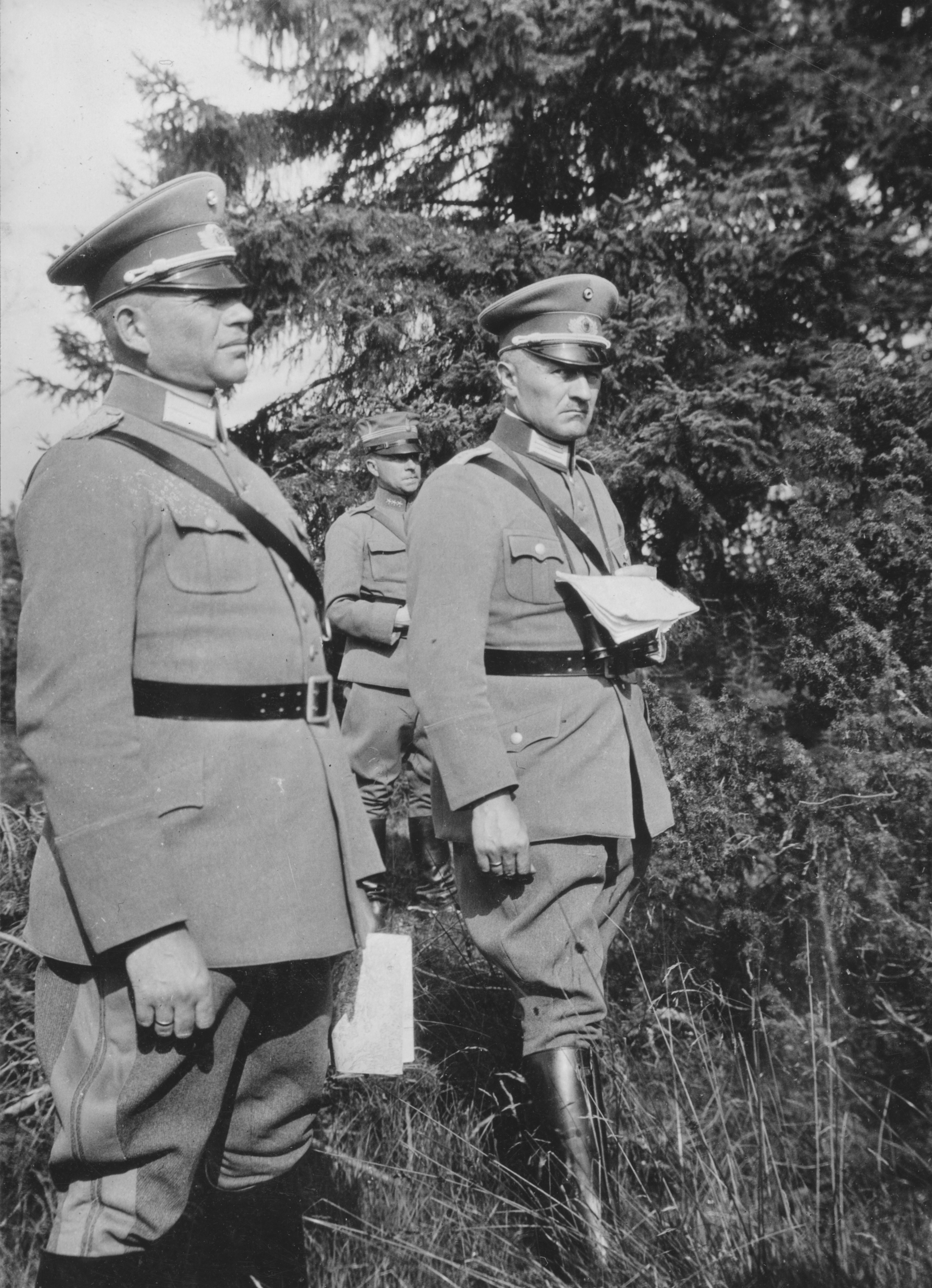 Tillhor Armemuseums arkiv; Belongs to the Army Museum Sweden archive